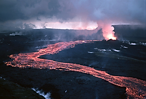 Lava flow during a rift eruption at Krafla volcano, northern Iceland, in 1984.